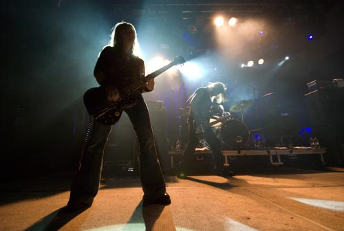 Electric Wizard, live at Hole In The Sky, Bergen Metal Fest 2007